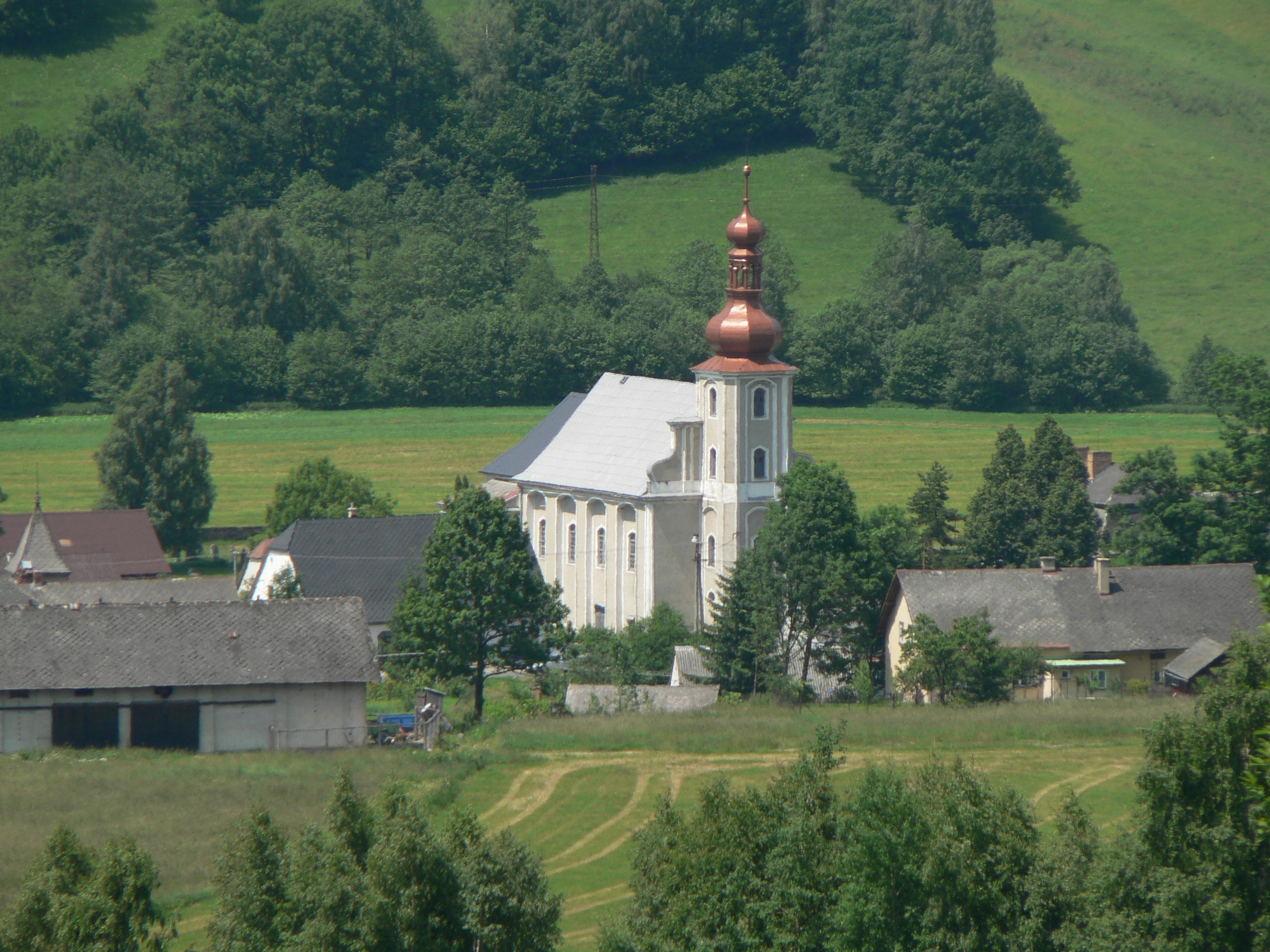 St Thomas Church, lower Domasov, Jesenik district. Late baroque, 1726-1730.